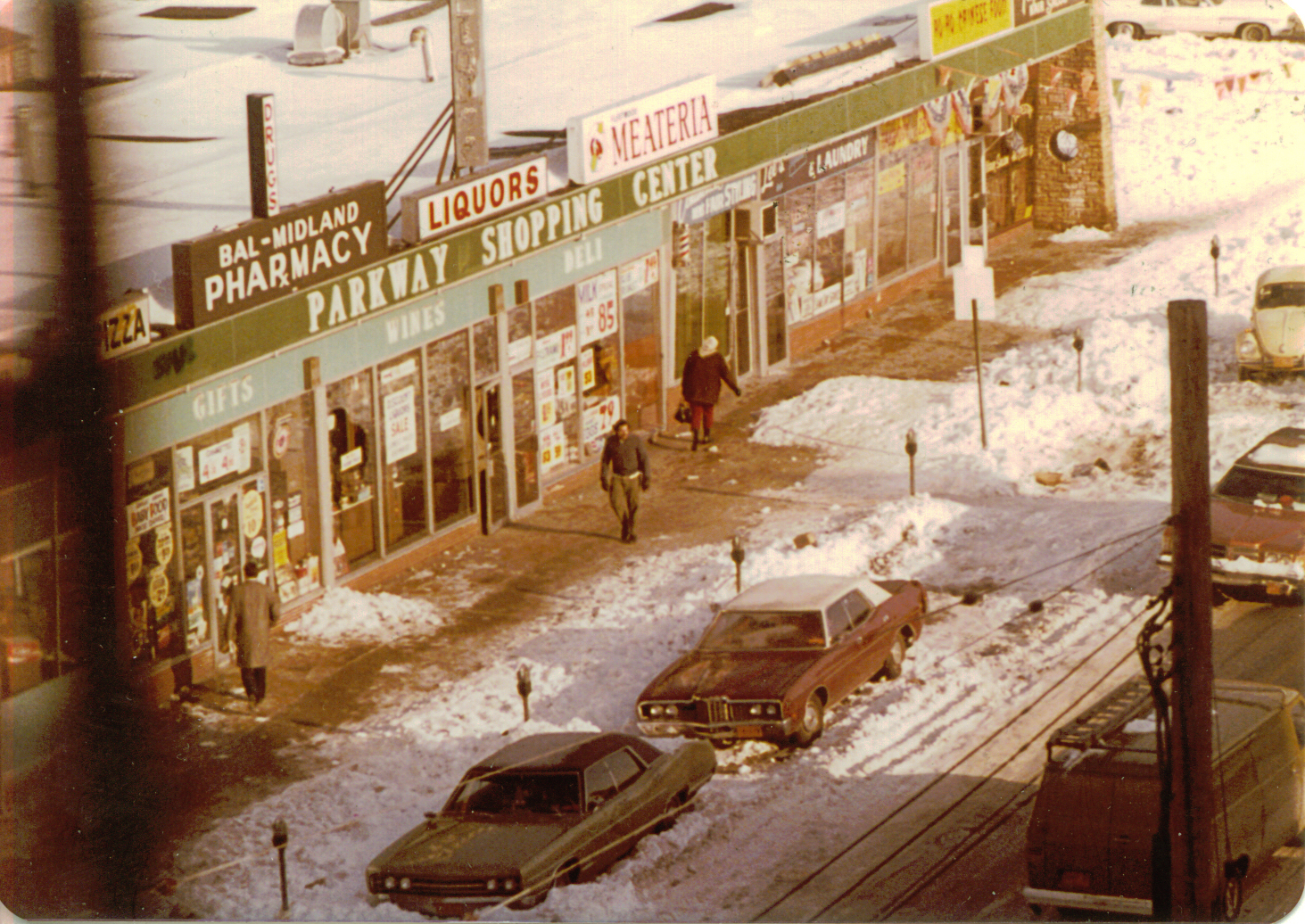 Jon Randall walking down Bronx River Road circa 1980.